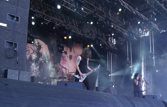 Kreator during Metaltown 2010 festival